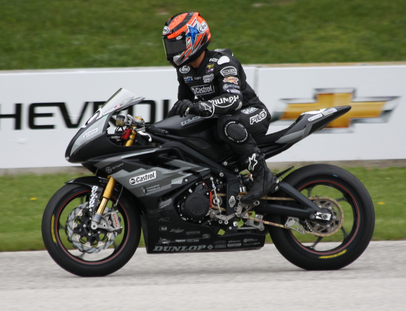 AMA Pro rider Jason DiSalvo competing on his Sportbike at the Subway SuperBike Doubleheader weekend race at Road America on Sunday.